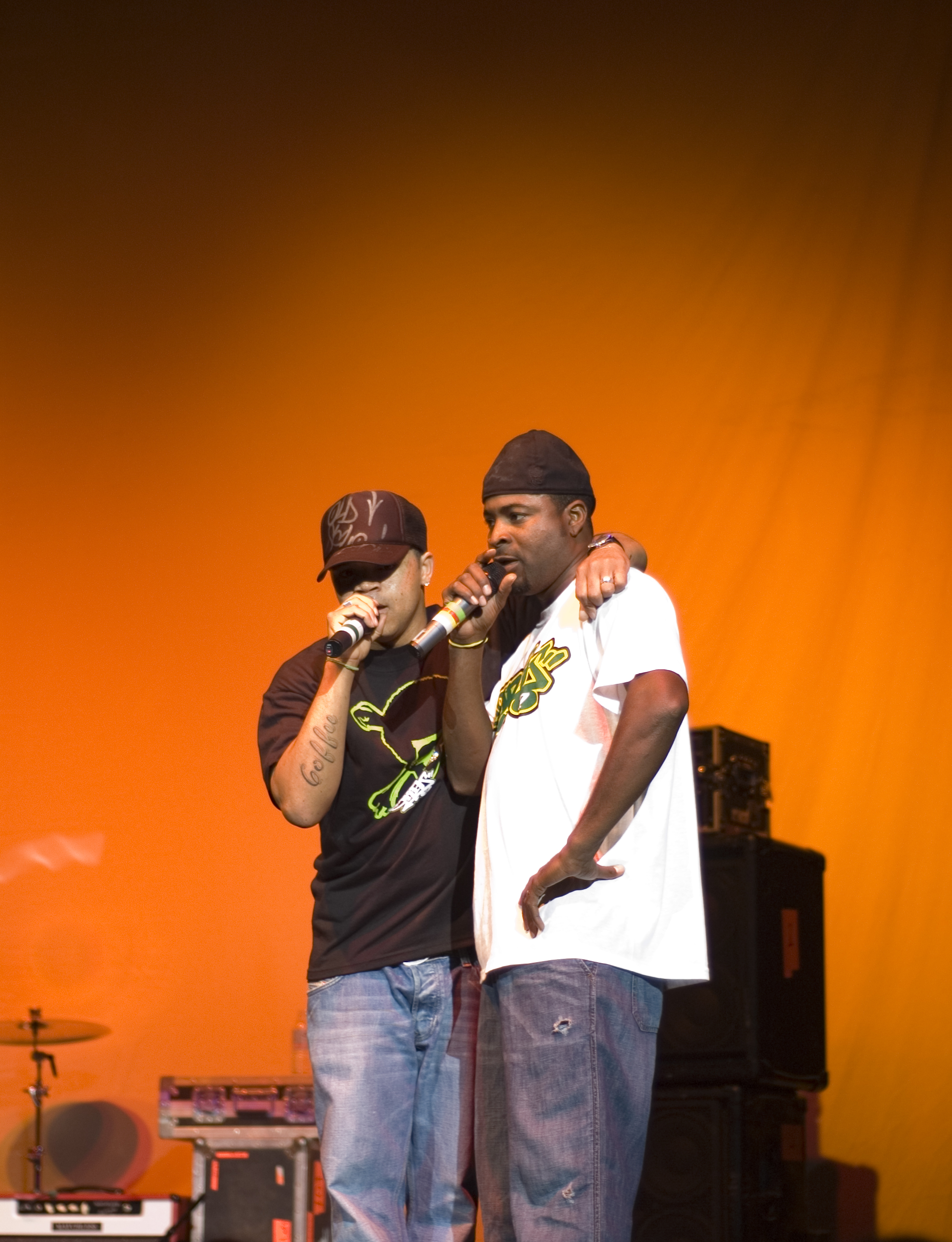 The Christian music rap/hip hop group GRITS in 2005.